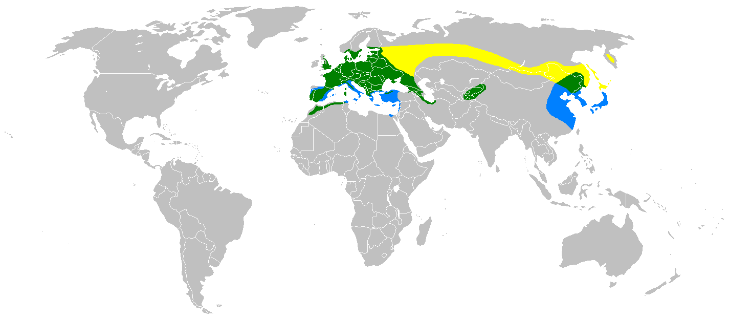 Distribution map of Coccothraustes coccothraustes. Yellow: breeding summer visitor Green: breeding resident Blue: non-breeding winter visitor